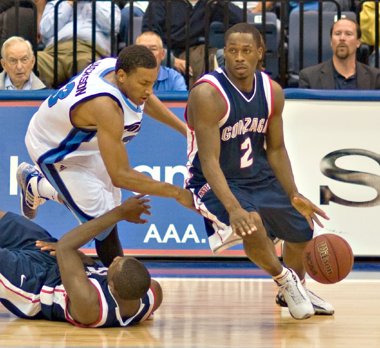 Jeremy Pargo running past a defender in a game against the University of San Diego.